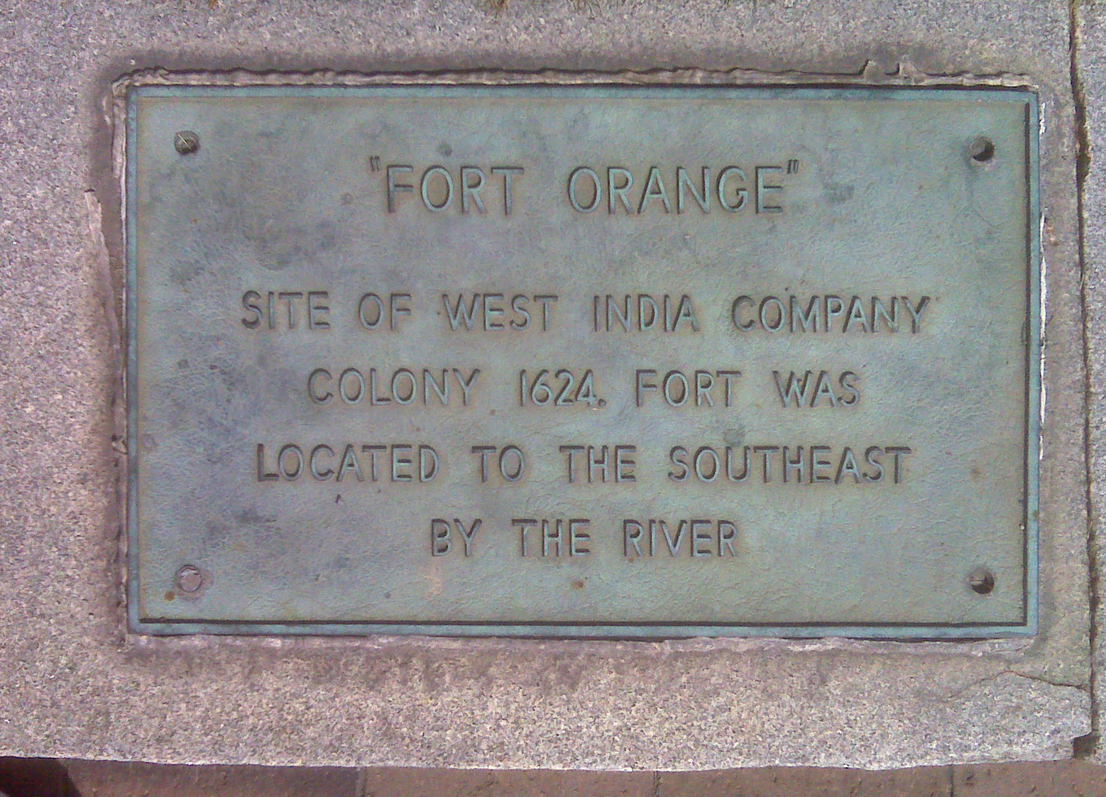 "Fort Orange" Site of West India Company Colony 1624. Fort Was Located To The Southeast By the River Broadway at Foot of State St., Albany, New York